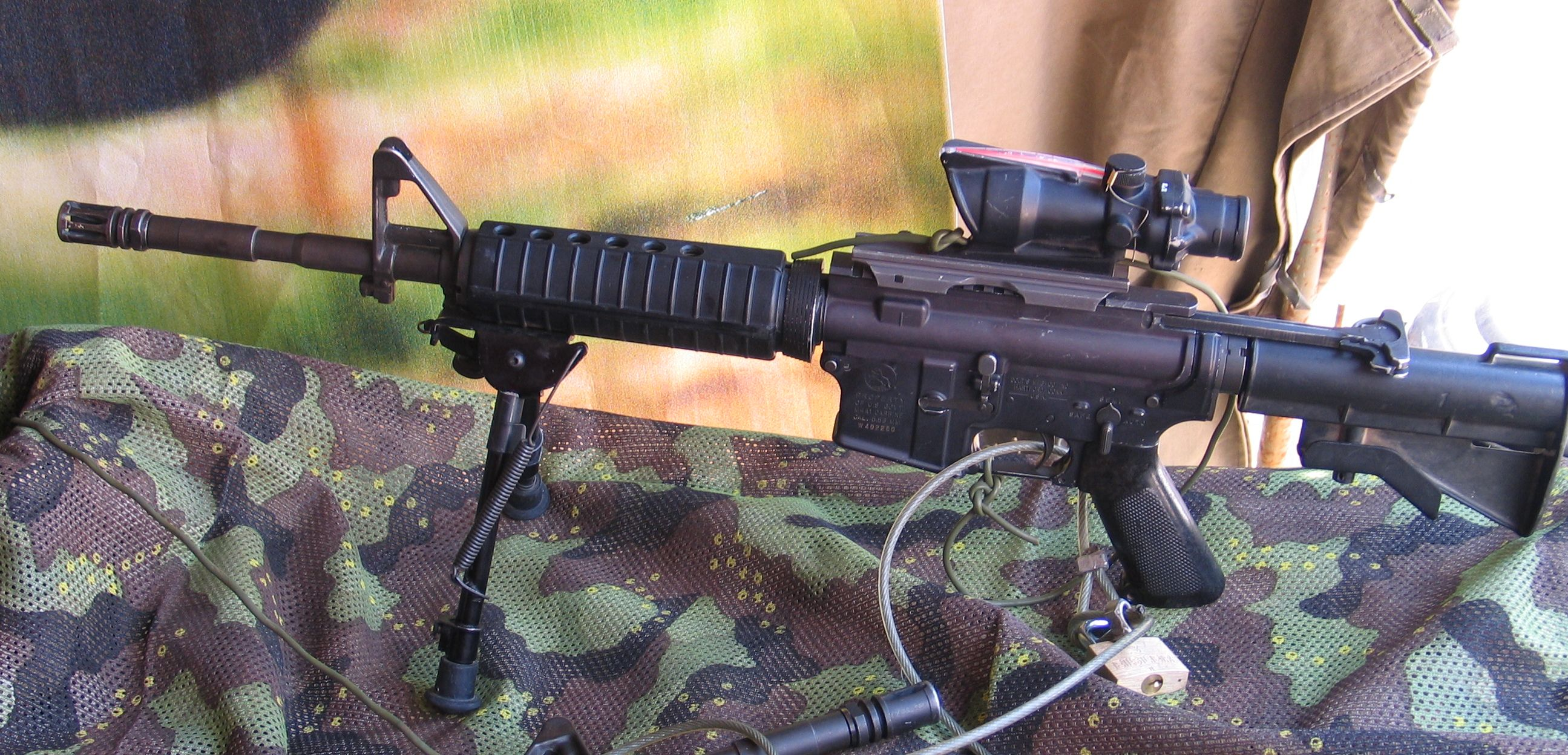 M4 carabine. Independence Day exhibition at Yad la-Shiryon Museum, Latrun, Israel.